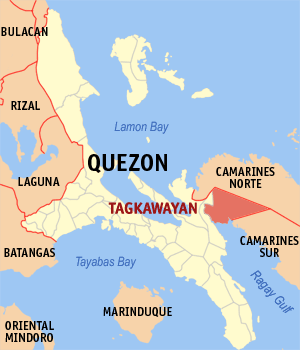 Map of Quezon showing the location of Tagkawayan